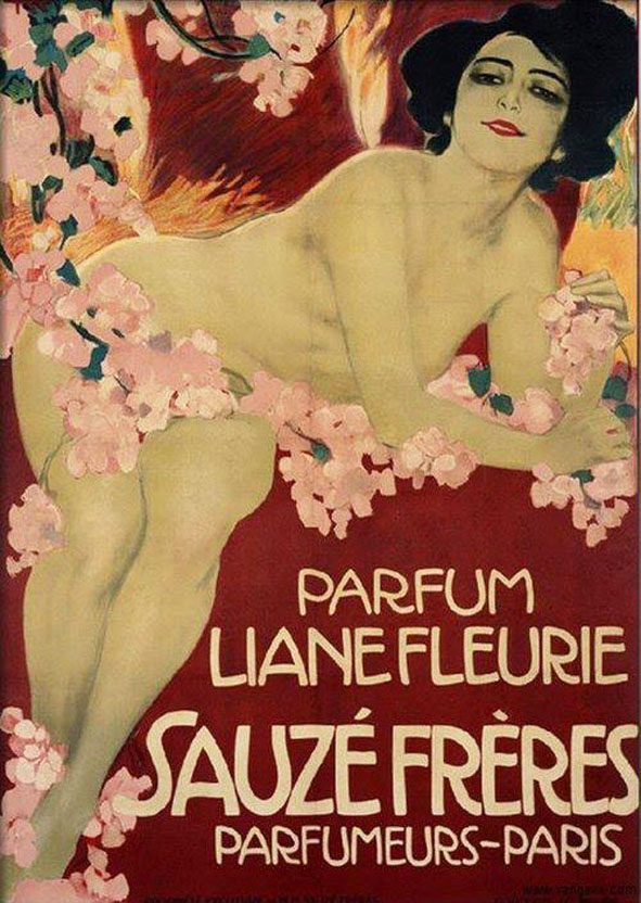 Poster by Leopoldo Metlicovitz.